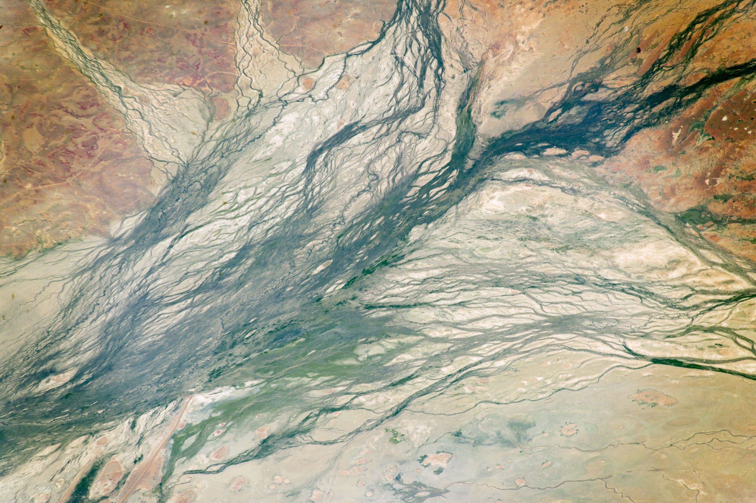 Myriad, overlapping river channels distinguish what is known in Australia as the Channel Country. An astronaut on the International Space Station took this photograph of the area in northwest Queensland where the channels flow south toward Lake Eyre. The floodplain includes hundreds of channels, as the Georgina, Burke, and Hamilton rivers merge into the very broad floodplain of Eyre Creek (more than 30 kilometers across). Landscapes in the Channel Country are generally very flat and drainage is poor, which encourages wetlands to form. The densest vegetation and the concentrated channels form a semi-permanent wetland at the meeting point of the rivers. These wide Australian floodplains are unique on the planet. Scientists think they are caused by the extreme variation in water and sediment discharges from the local rivers. In many years there is no rainfall at all, so these rivers are effectively non-existent. In years of modest rainfall, the main channels will carry water, with some neighboring channels carrying minor floodwater. (That water can remain for months in narrow waterholes known as billabongs.) But every few decades, the floodplain needs to carry extremely high discharges of water. These heavy floods come from tropical storms to the north and can inundate the entire width of the floodplain. On such occasions, the floodplain appears as series of brown water surfaces with only tree tops indicating the location of the islands. To avoid such floods, highways are built outside the floodplains wherever possible. In this image, the straight line of the major local highway, the Boulia-Bedourie Road, is set well away from the floodplain.